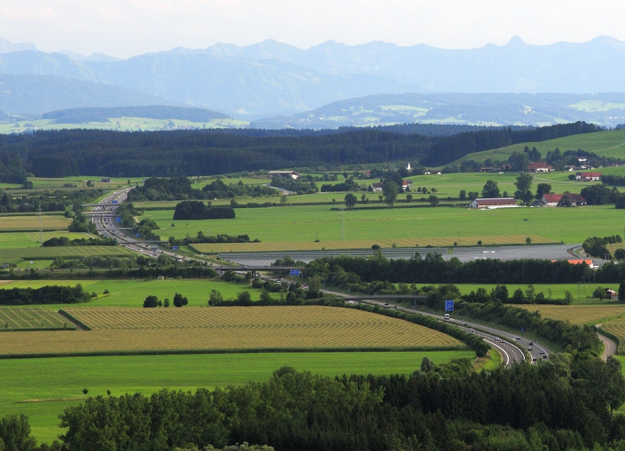 View on the Bundesautobahn 96 from castle Zeil